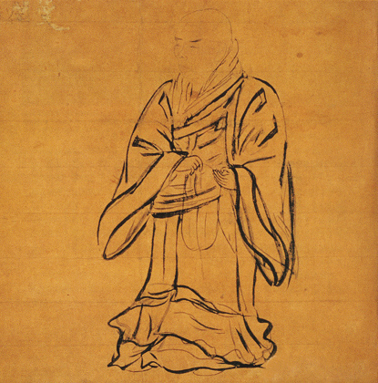 Portrait of Shinran Shōnin (紙本墨画親鸞聖人像 shihon bokuga Shinran Shōninzō?) or Mirror portrait. Standing portrait of the founder of the Jodo Shinshu school of Pure Land Buddhism. Hanging scroll, ink on paper, 35.2 × 33 cm (13.9 × 13 in). Located at Nishi Honganji, Kyoto. The painting has been designated as National Treasure of Japan